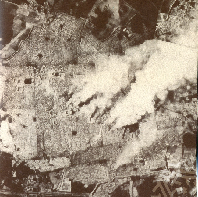 Fires in Bukhara during time of storm of Red Army. A picture from an airplane, on September, 1st, 1920